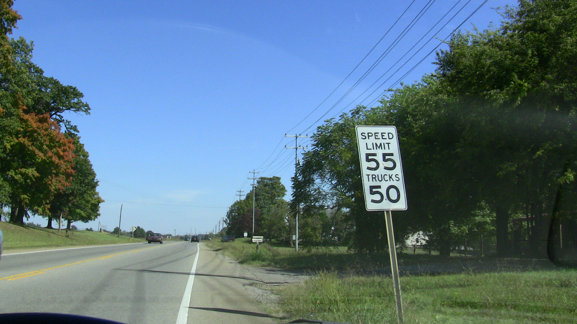 This is a view looking northbound on U.S. Route 79. The location is about one mile north of the junction with Interstate 24 (Exit 4). The speed limit sign has a general speed limit of 55 mph with a separate 50 mph limit for trucks. Separate speed limits for trucks are rare in this region.